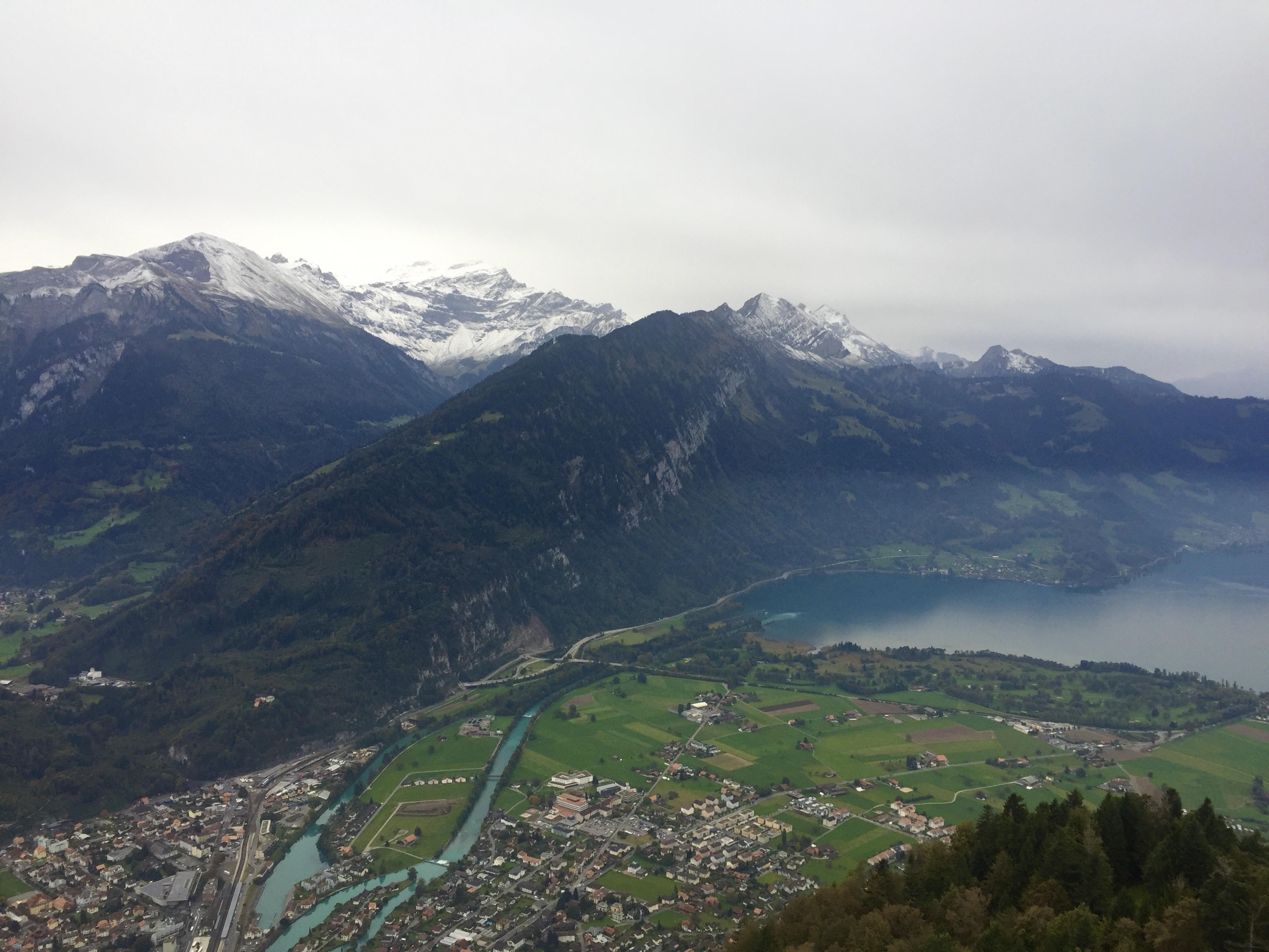 View from Harder Kulm